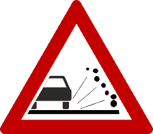 Diagram of road signs of Luxembourg